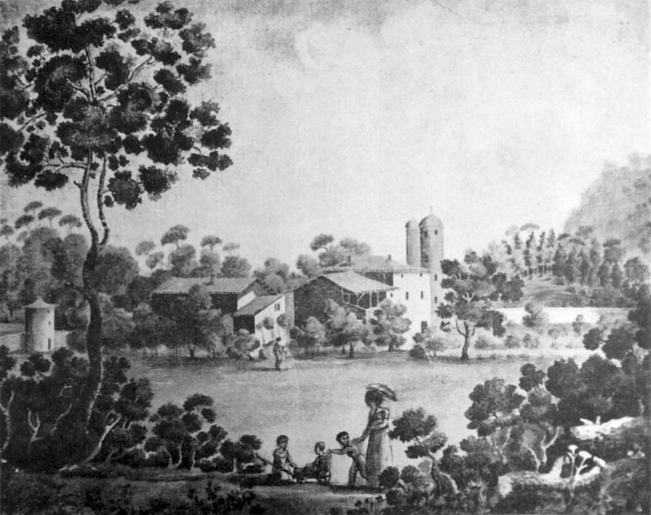 Lush setting and some people with few houses in the background, one with two turrets